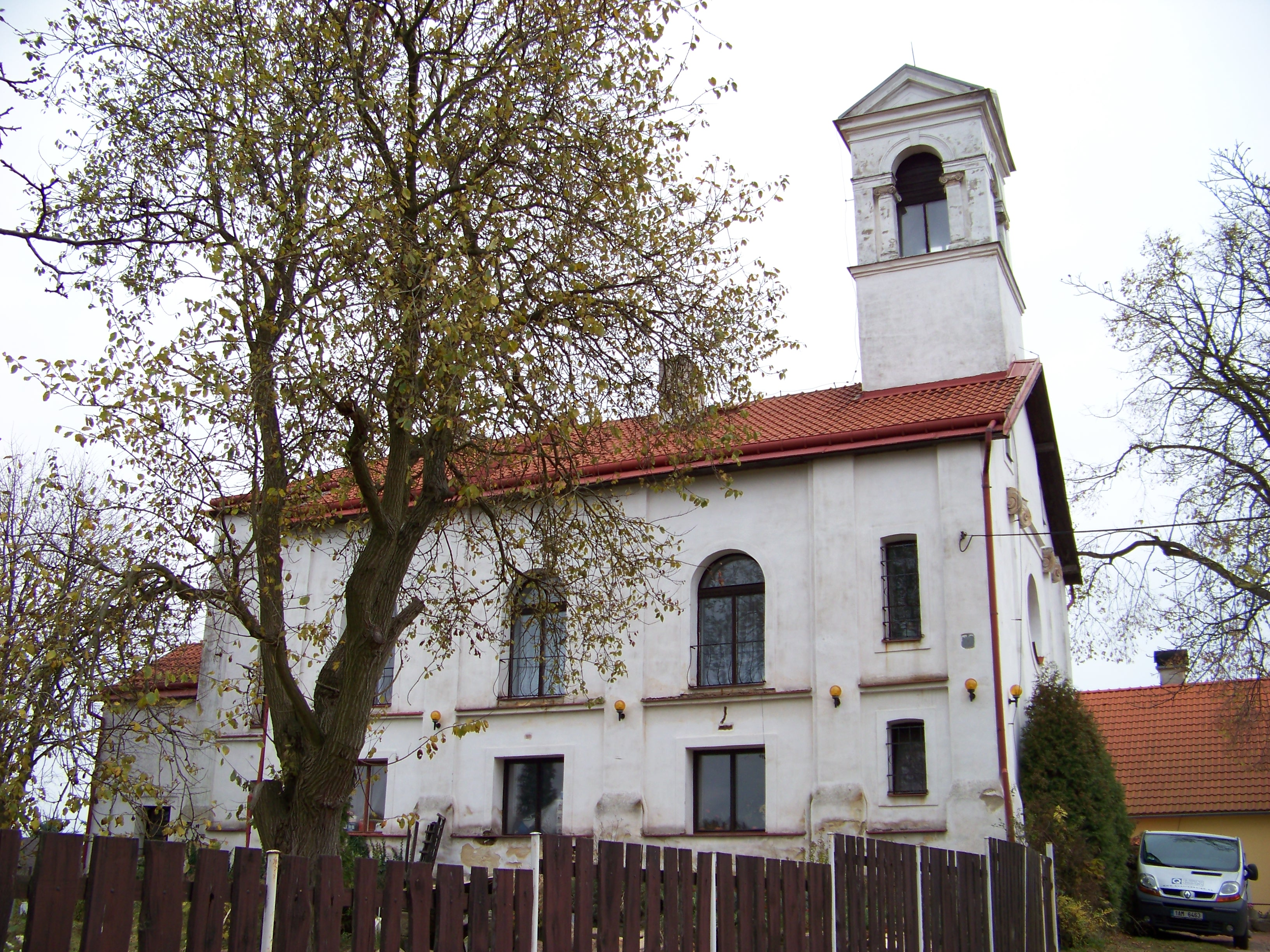 Mšeno-Romanov, Mělník District, Central Bohemian Region, the Czech Republic. A former chapel.